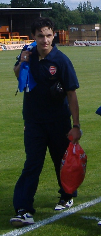 gjt6